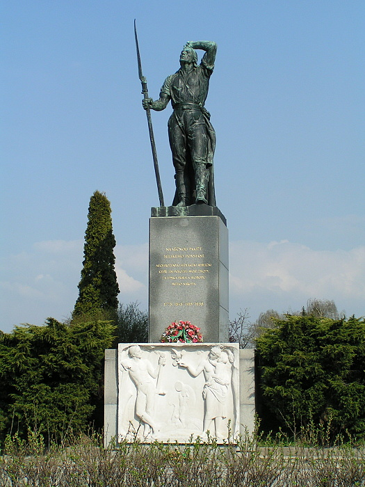 Memorial of 1775 peasant rebellion in Chlumec nad Cidlinou, Czech Republic